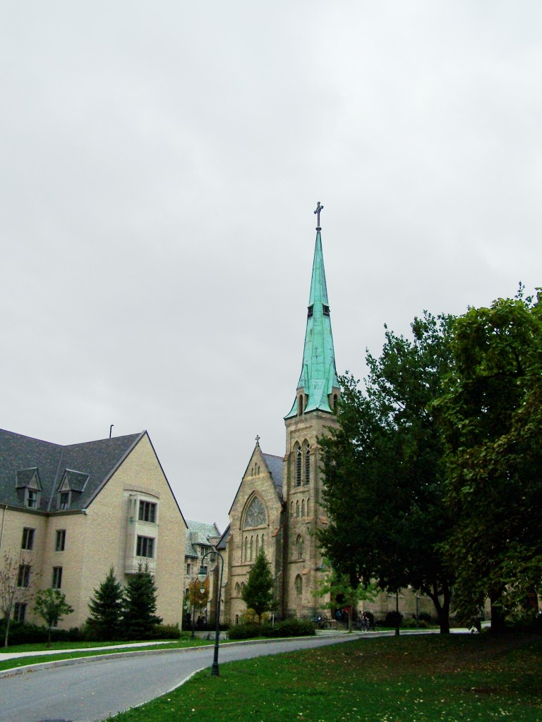 St. Basil's Church at St. Michael's College, University of Toronto